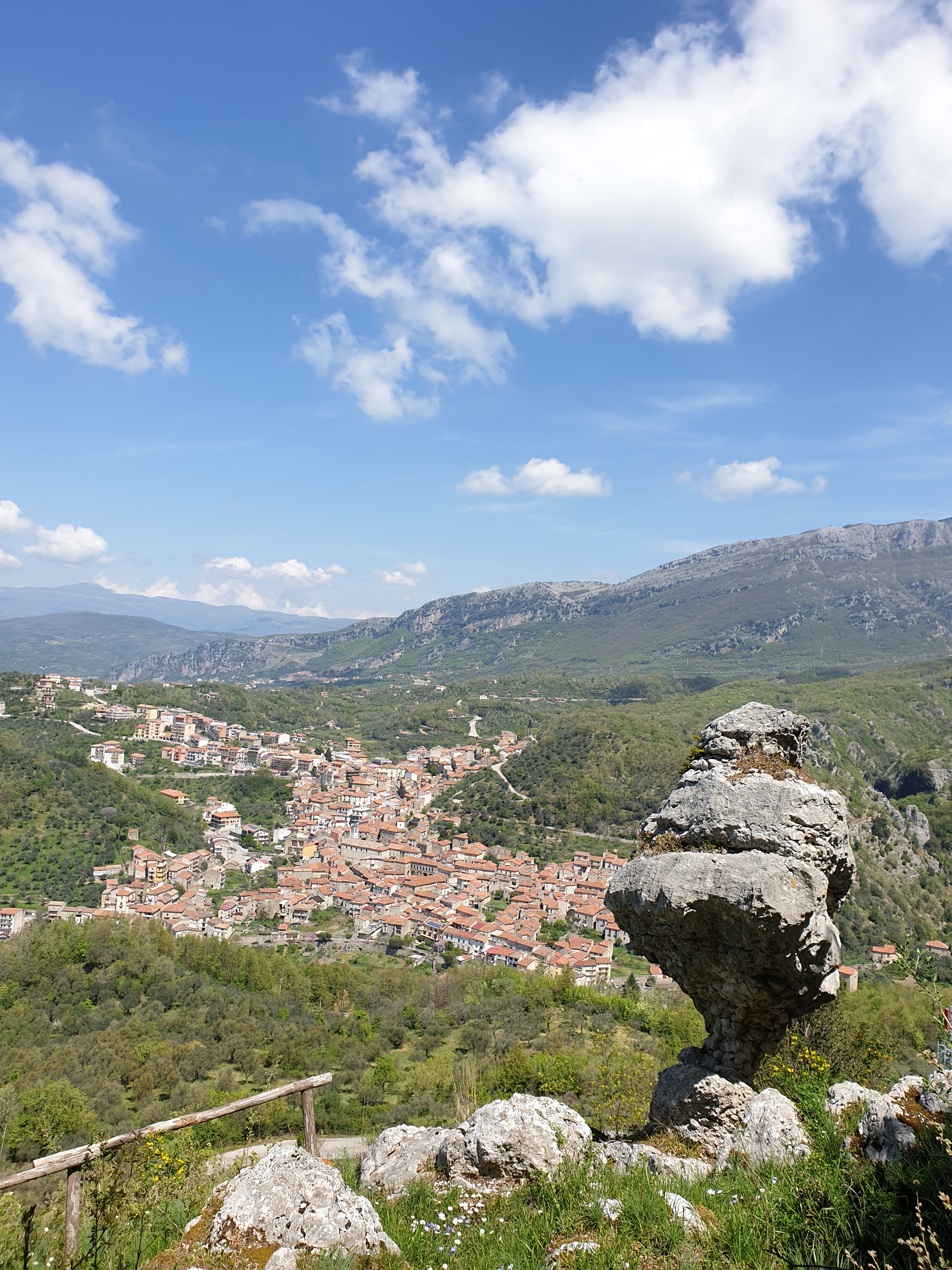 Piaggine Salerno Italy View